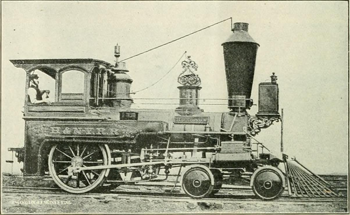 Title: Railway and locomotive engineering : a practical journal of railway motive power and rolling stock Year: 1901 (1900s) Authors: Subjects: Railroads Locomotives Publisher: New York : A. Sinclair Co Text Appearing Before Image: t links of railroad builtclose to the banks of their own bigditch might be joined together in acontinuous chain extending from theocean to the lakes. The Mohawk &Hudson, the Utica & Schenectady, theSyracuse & Utica and other smalllines reaching towards Buffalo werepermitted to proceed unmolested toeventually form a through line whichdried the heart of the Erie Canal and Give the Fireman a Chance. Quite frequently we see articles ofcriticism on firemen presumably fromengineers and there was one in partic-ular in your May issue. There is an old saying that a poorworkman always finds fault with thetools and we apply the same in thiscase. We have a number of engineers in the art of firing and we appreciatethe fact that Railway and LocomotiveEngineering has done its part in that ■line, but we dislike the idea of someone who perhaps never really fired anengine in his life endeavoring to tellhow to do it, or to describe how heused to do it. Ec-ing a constant reader of your val- Text Appearing After Image: HACKENSACK, BUILT BY ROGERS IN 1860. FOR N. Y. & HACKENSACKBROAD GAUGE. NOW PART OF ERIE. all over the country who are continu-ally finding fault with the fireman, al-ways telling how it ought to be doneand perhaps if they were put to thetest they could not keep an ordinarycook stove hot. The fireman of to-day is up againsta pretty hard proposition and the workis hard enough without his being harp-ed upon by some one who if he did his uable magazine I thought I wouldwrite a few lines on this subject andhope no one will take oflfense at it. M. L. Houlihan.